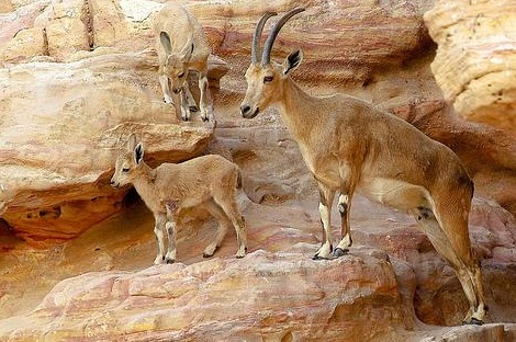 Beautiful pictures of a family of deer, In the Dana Reserve in Jordan.